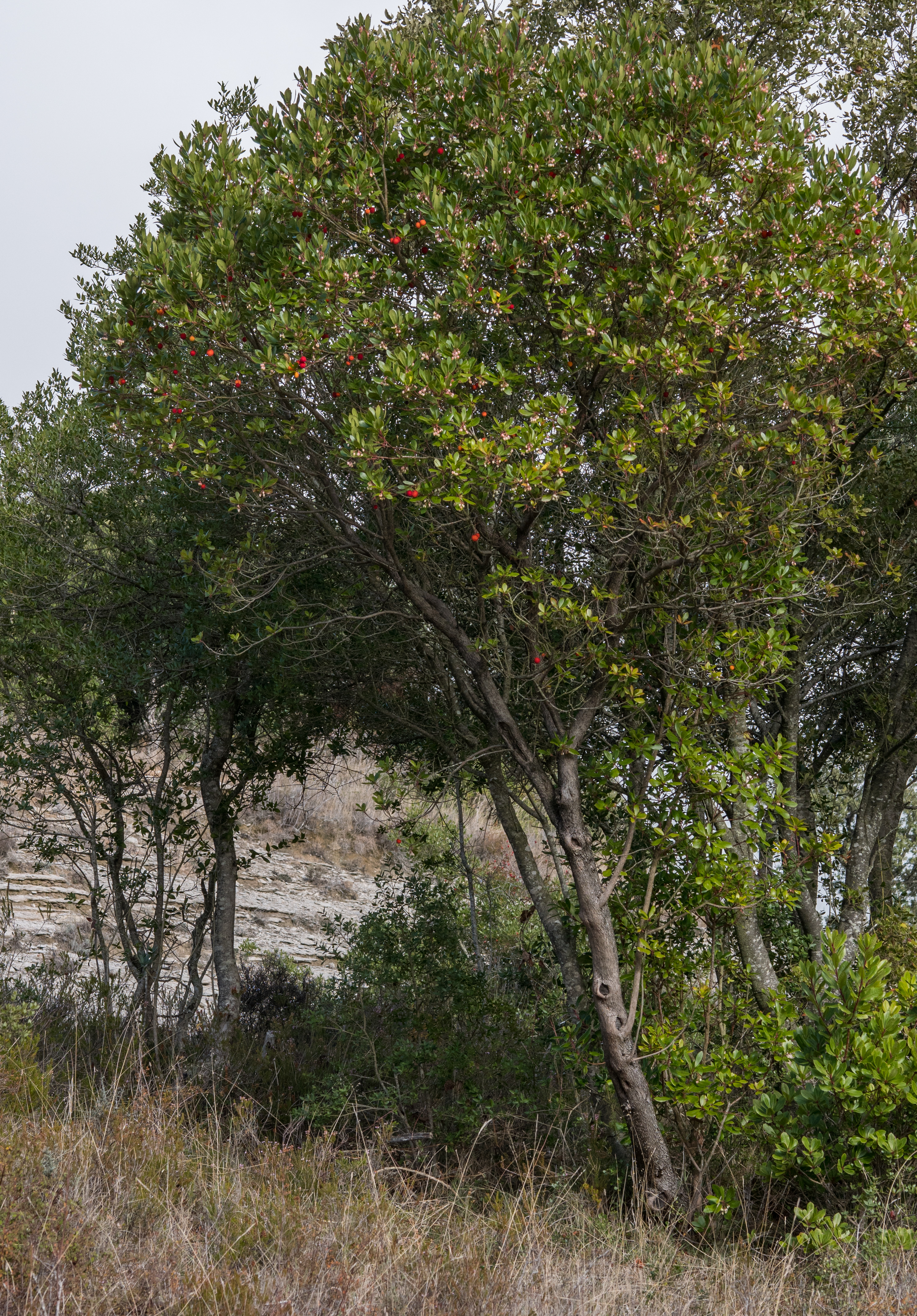 Strawberry tree (Arbutus unedo) at the Goros gorge, Badaia mountain range. Basque Country, Spain